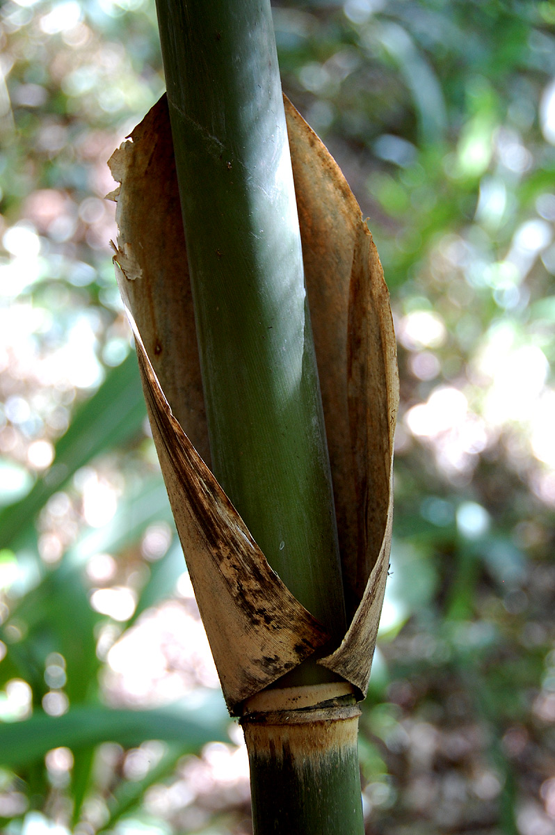 Oreobambos buchwaldii - Tava Marsh, Moribane Forest Reserve, Mozambique